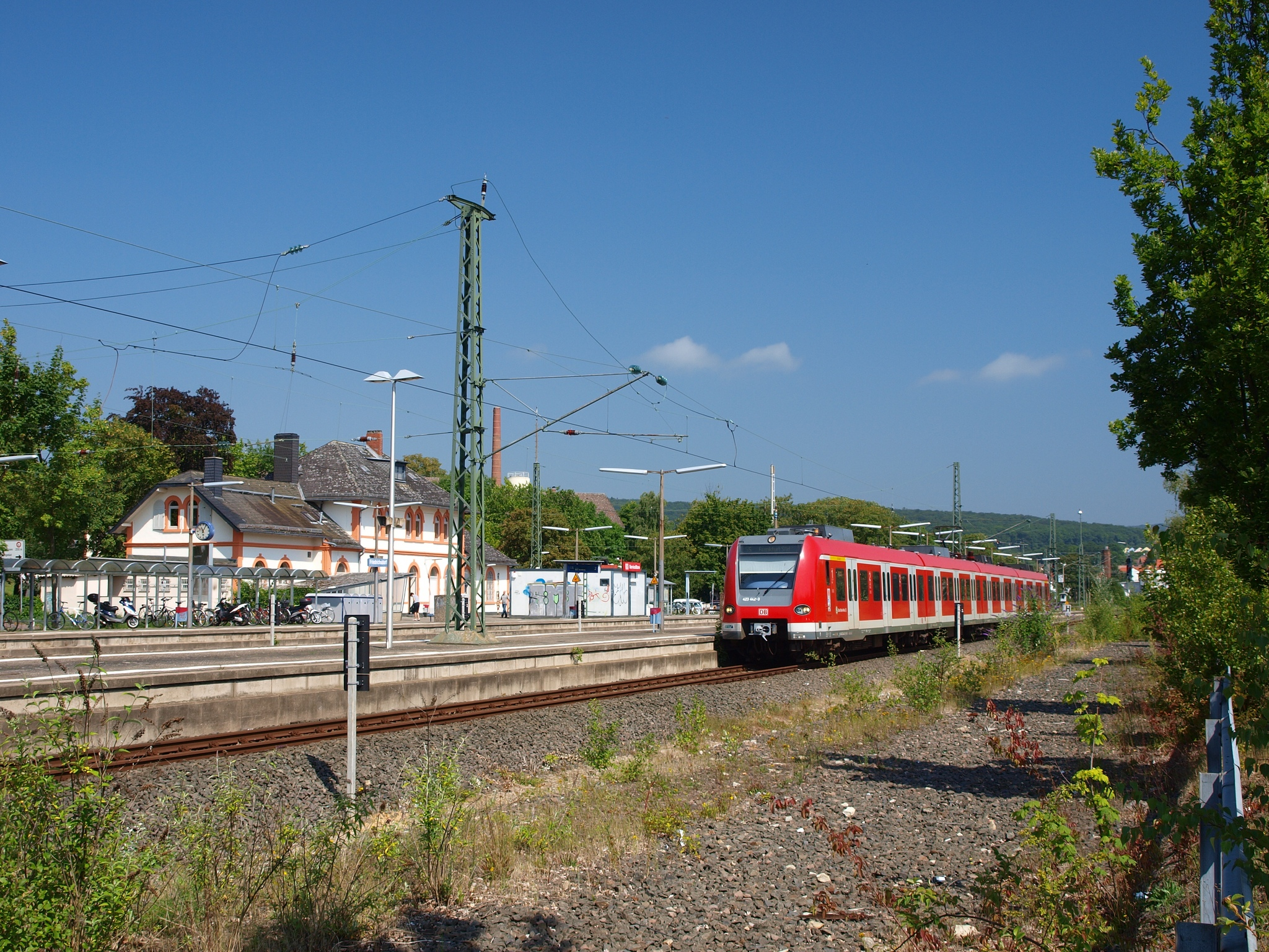 Friedrichsdorf (Taunus) station from its eastern side. A Class 423 is waiting for its departure as line S5 to Frankfurt Süd at track 5. The kiosk on platform 1 was dismantled by now.